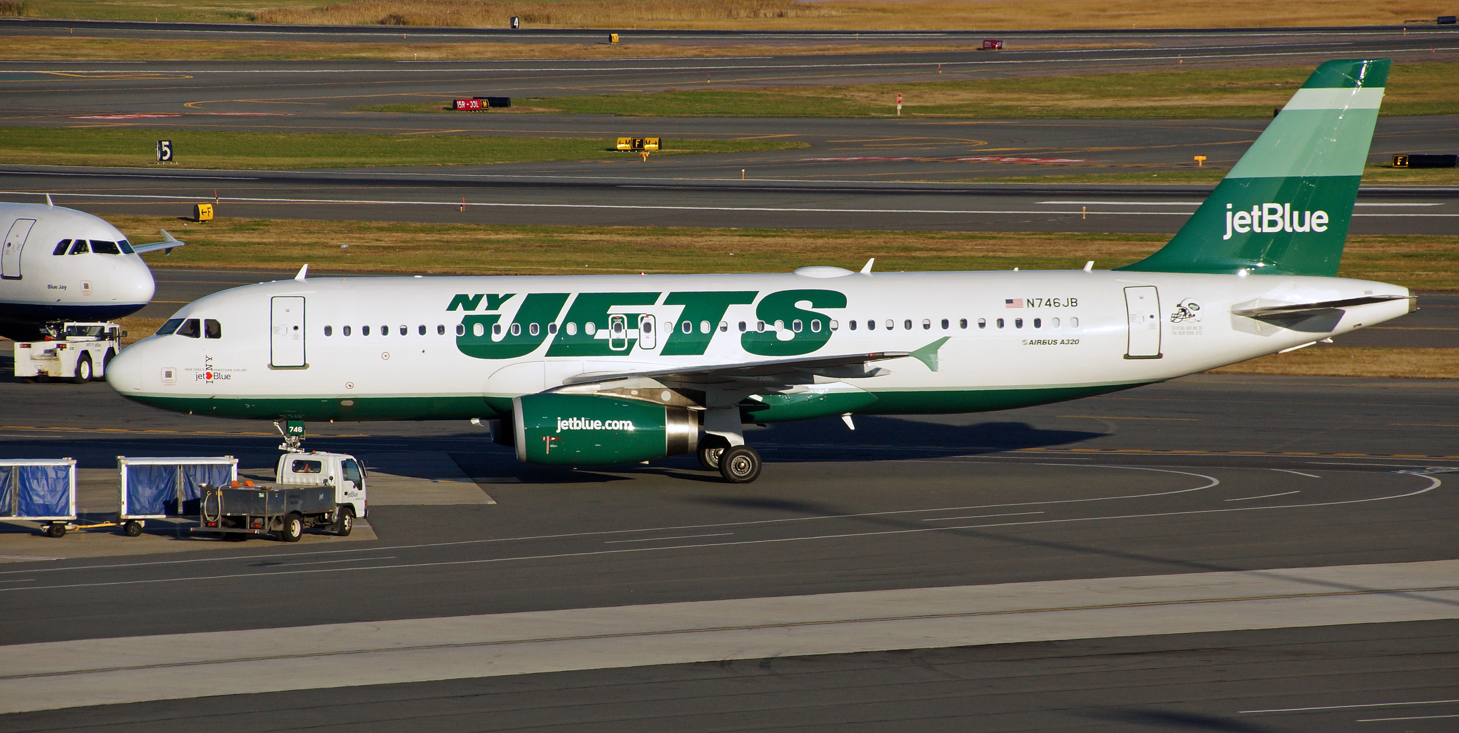 JetBlue honors the New York Jets NFL football team with its green plane.